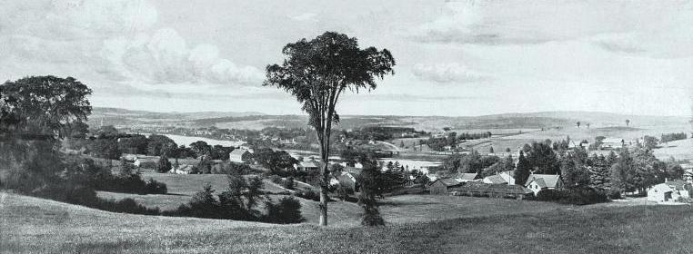 Print, Upper Melbourne, Eastern Townships, QC, about 1910, Pinsonneault Frères, Ink on paper mounted on card - Halftone - 17 x 44 cm